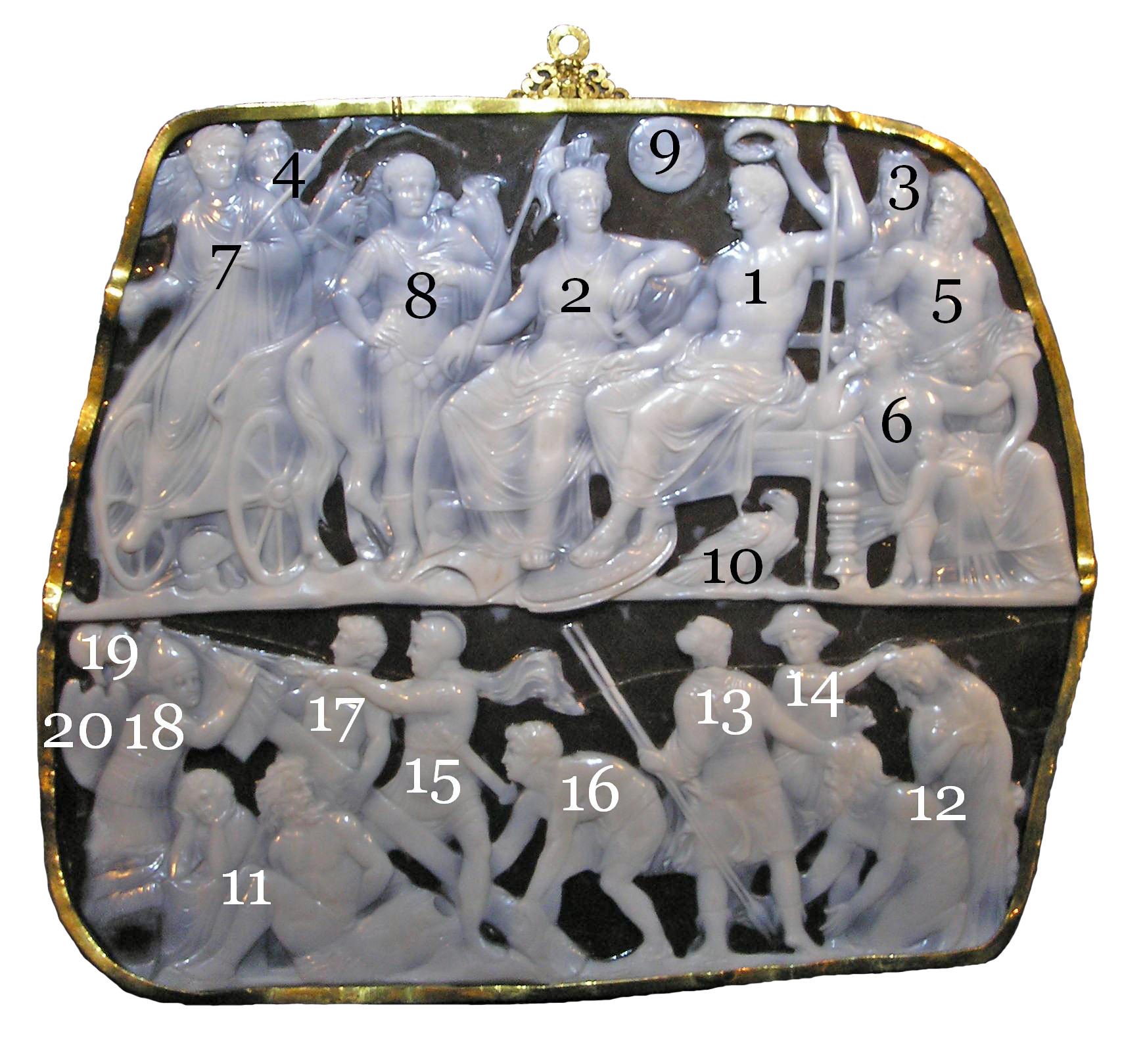 Gemma Augustea, a depiction of Emperor Augustus surrounded by goddesses and allegories. Collection of Greek and Roman Antiquities in the Kunsthistorisches Museum, Vienna. Roman, 9-12 CE. Two-Layered onyx. H: 19 cm. Setting: gold frame, reverse side in ornamented open-work; German, 17th century. AS Inv. No. IX A 79.